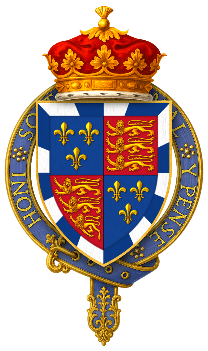 Coat of arms of Henry Somerset, 1st Duke of Beaufort, KG